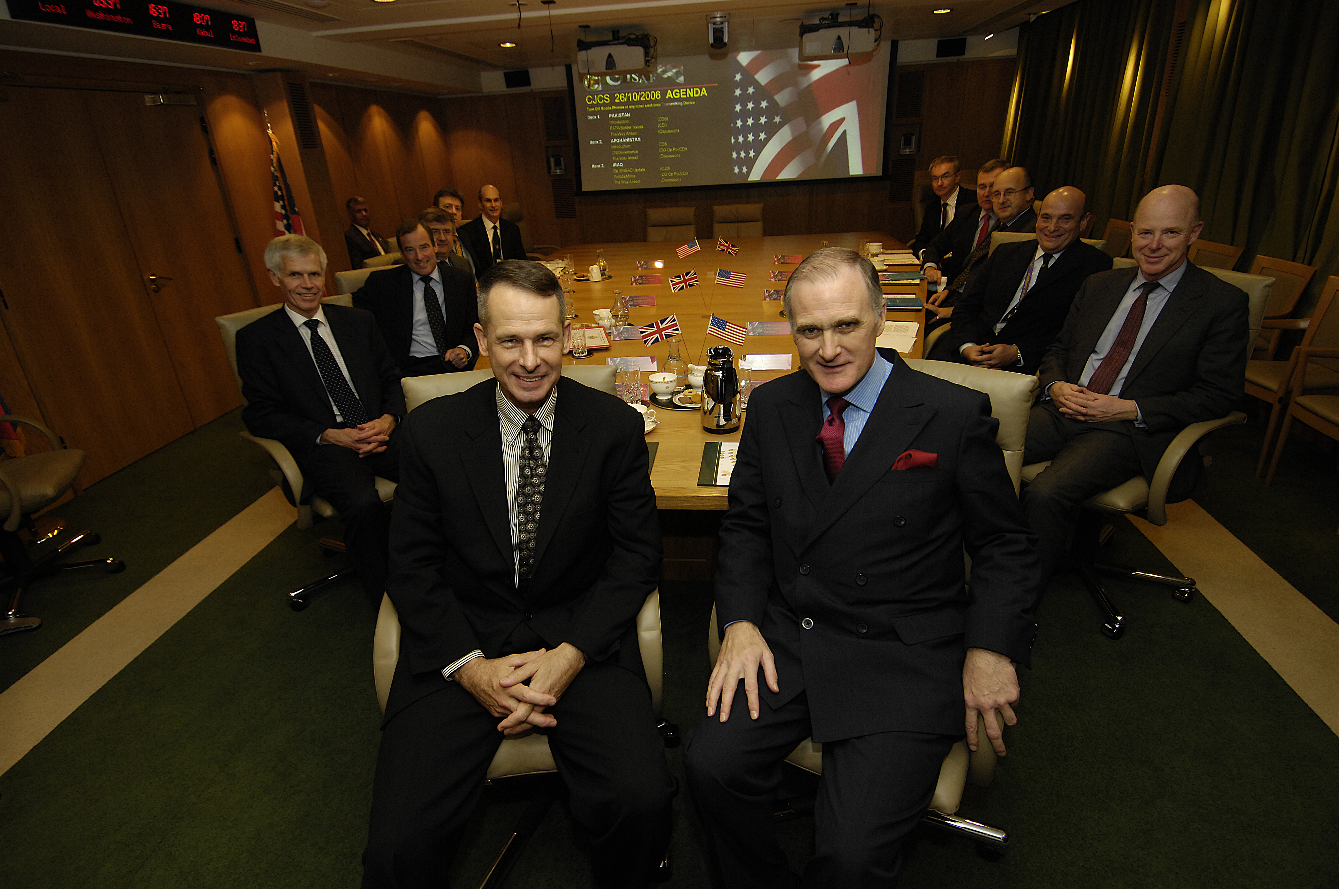 Chairman of the Joint Chiefs of Staff Marine Gen. Peter Pace and his British counterpart, Air Chief Marshal Sir Jock Stirrup, pose for a photo prior to a meeting at the British Ministry of Defense in London, Oct. 26, 2006. Sir Glenn Torpy is shown second from the left.